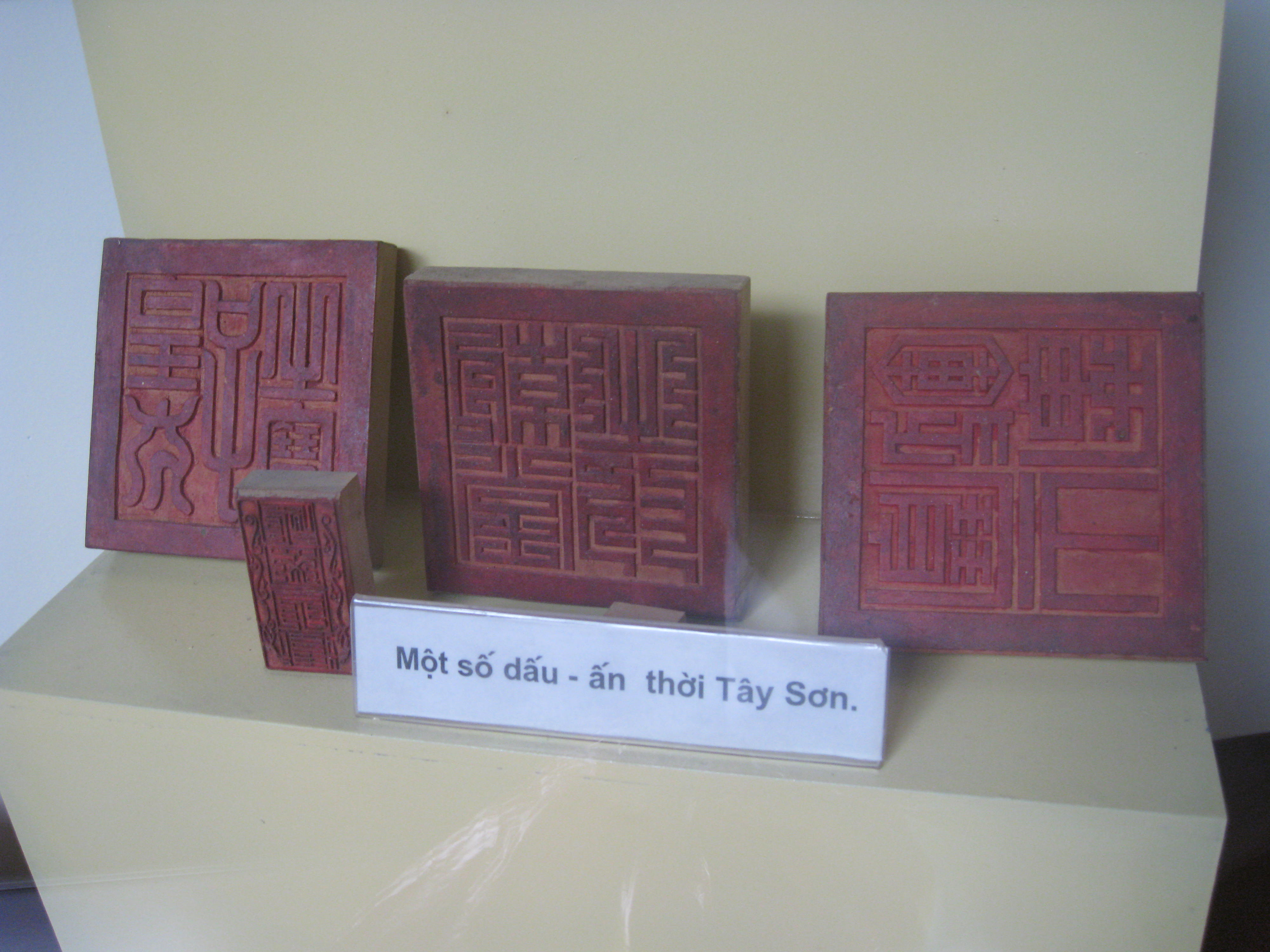 Seals used during the Tây Sơn Dynasty.